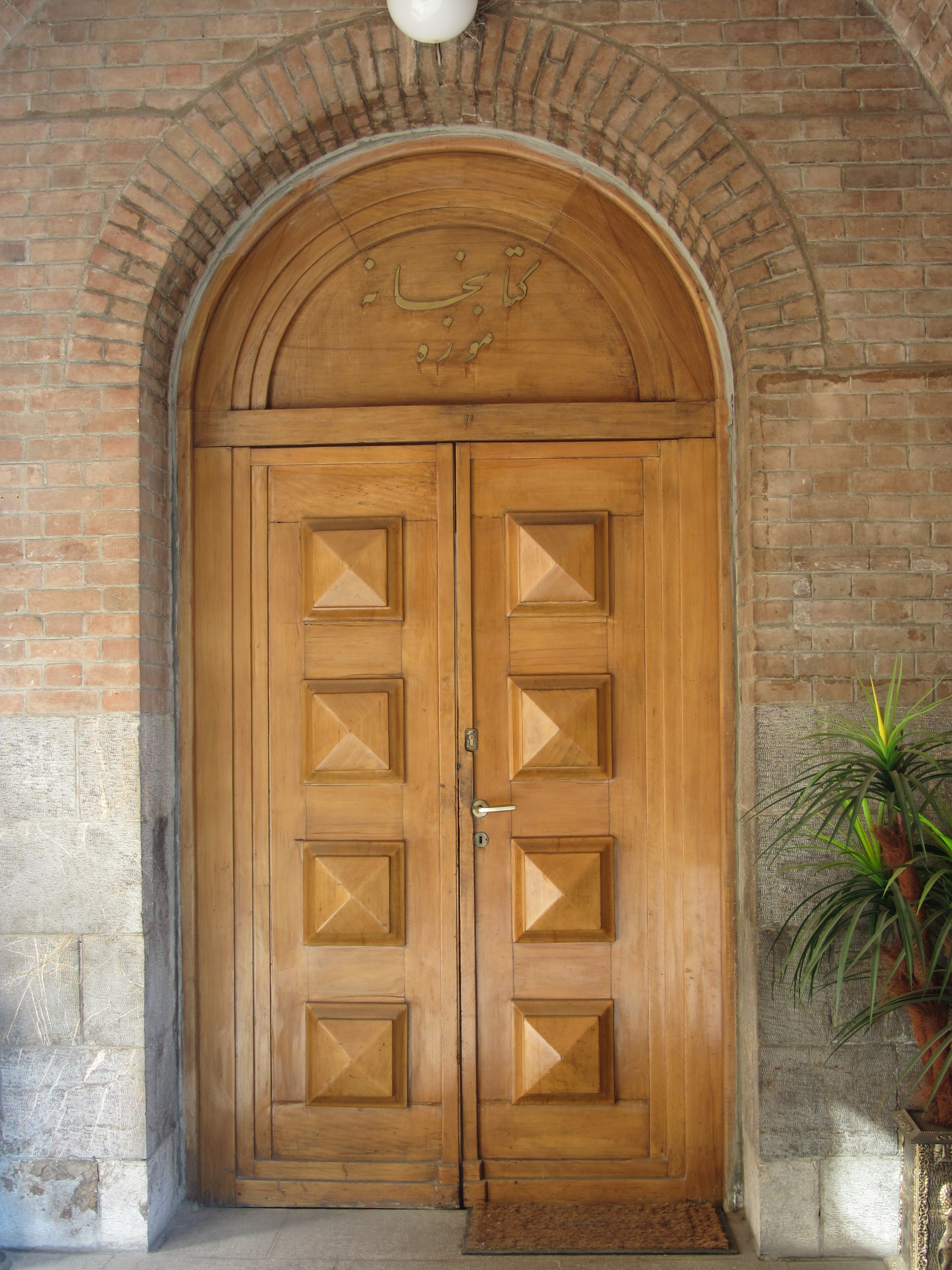 National Museum of Iran